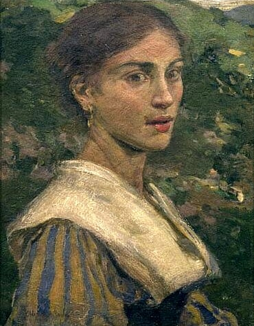 A Sabine Woman